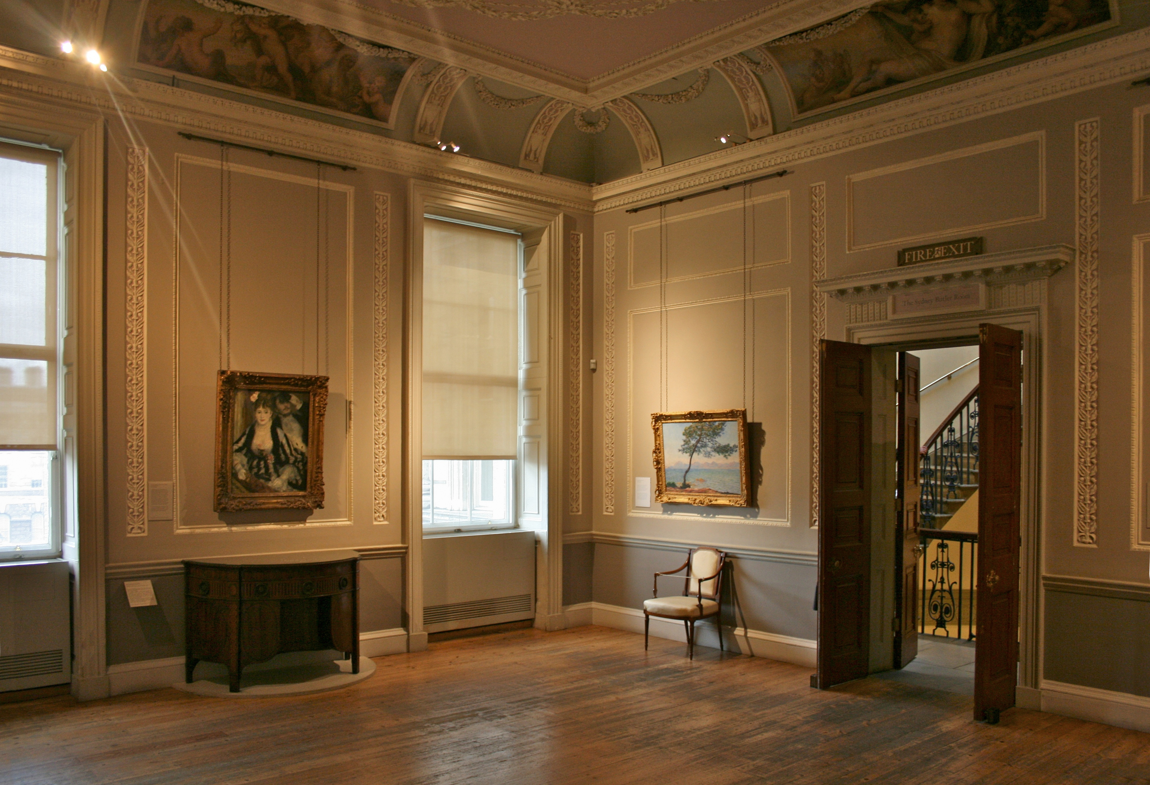 Courtauld Galleries.